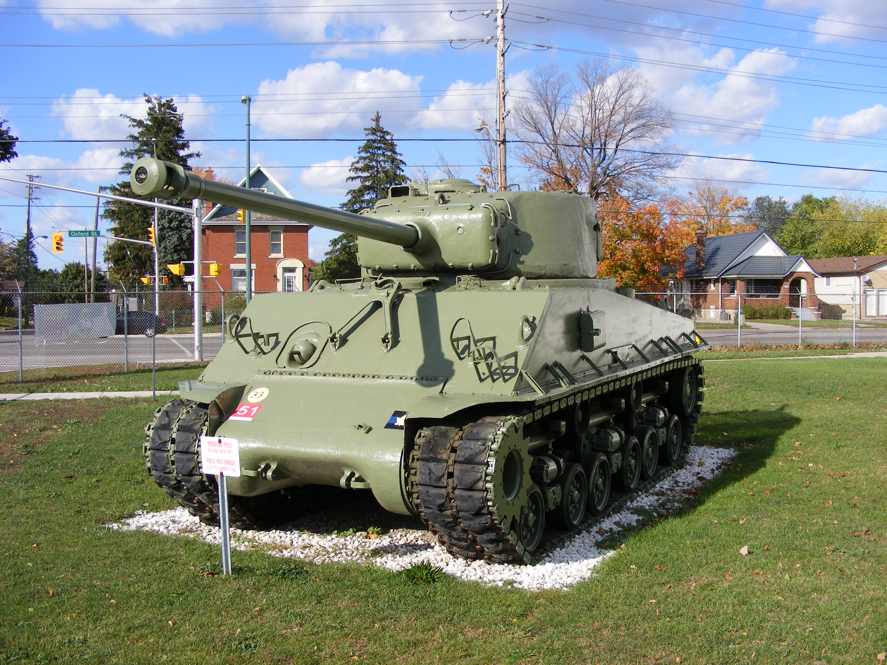 Sherman M4A2E8 (76 mm) HVSS tank displayed near the Royal Canadian Regiment Military Museum in London, Ontario. It carries the markings of the 6th Armoured Regiment (1st Hussars). Photo taken on October 20, 2007. Source: Photo by me, User:Balcer.